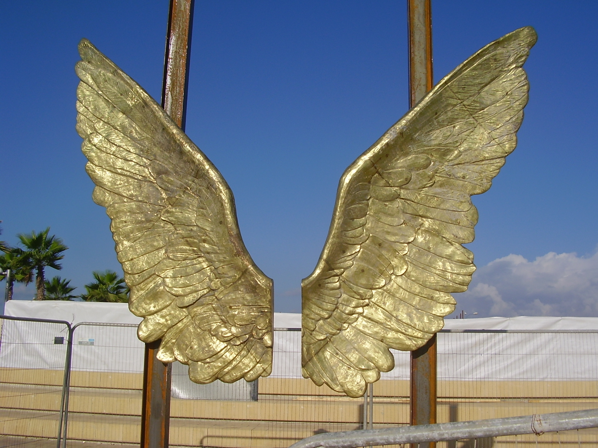 Wings of the city sculpture in Tel Aviv harbour